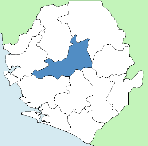 Map showing location of Tonkolili District in Sierra Leone